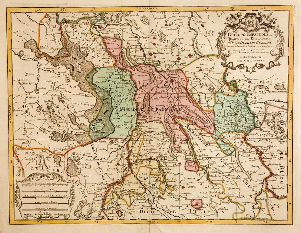 Spanish Guelders, or quarter of Roermond within the Duchy of Guelders. With its enclaves in the surrounding countries.